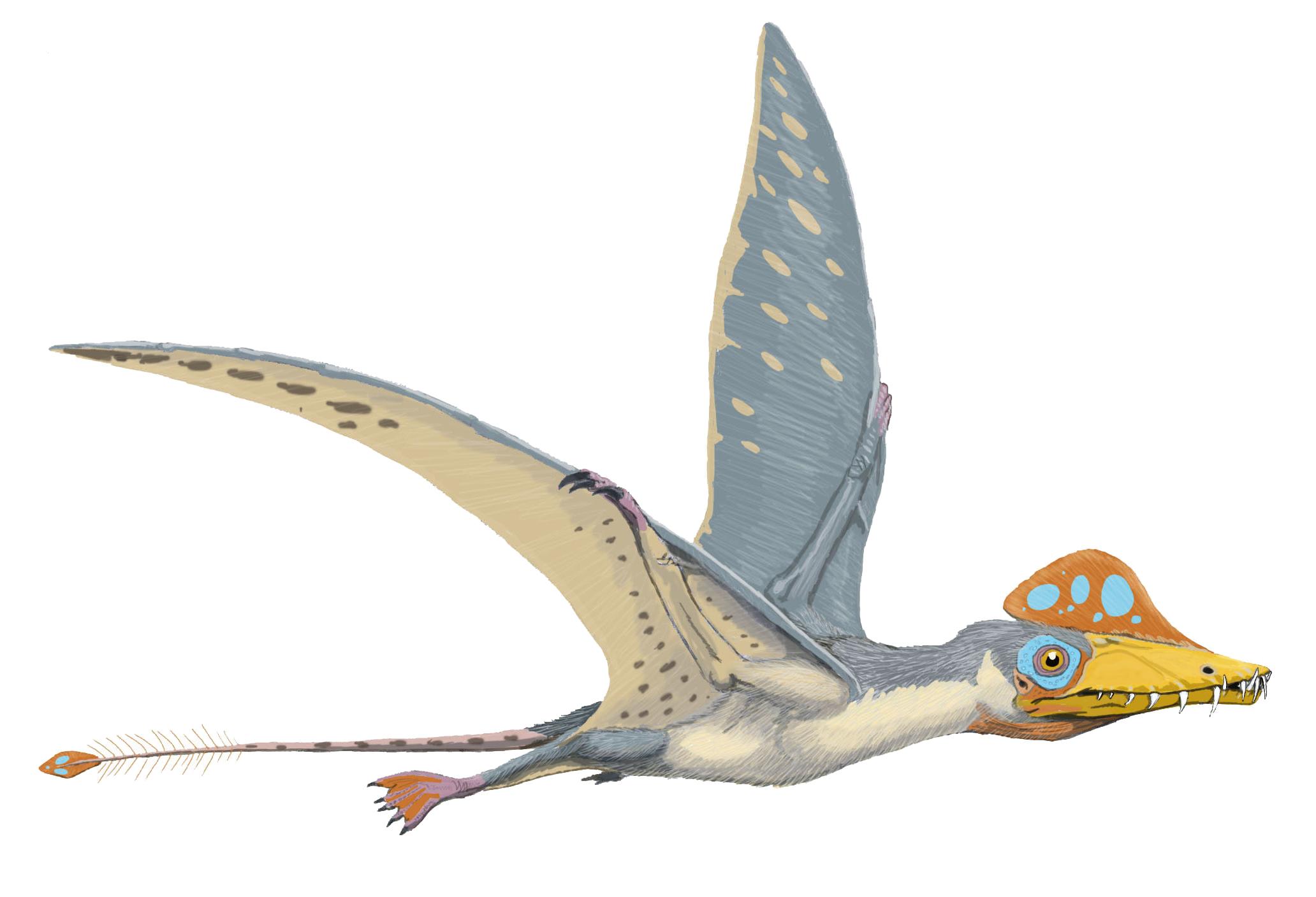 Scaphognathus